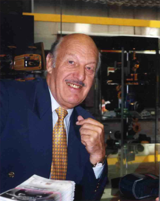 Charles PetitJean